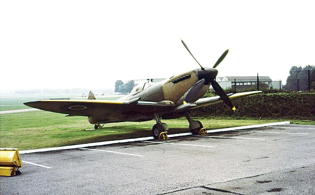 Spitfire in the Officers' Mess car park at RAF Northolt The hangars in the distance housed 32 Squadron and 207 Squadron. As a point of interest it should be noted that the car park is not just devoid of vehicles because of the Spitfire but because of the high terrorist threat which existed throughout the Seventies.